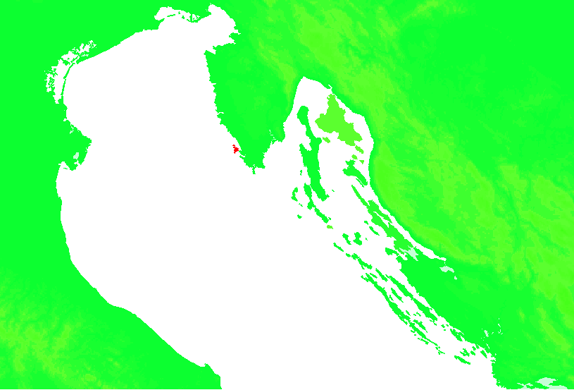 Island of Croatia Croatia - Brioni.PNG